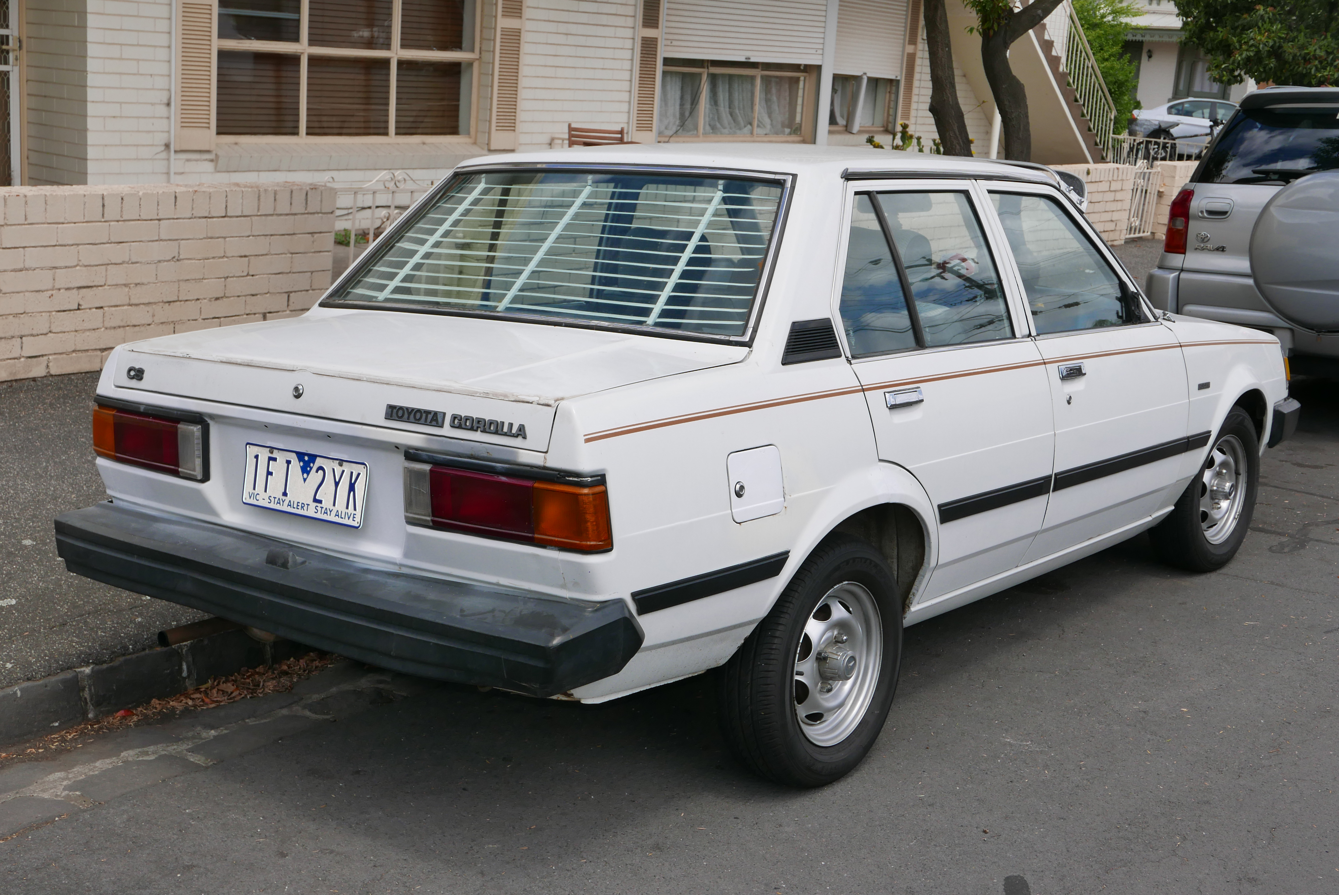 1984 Toyota Corolla (KE70) CS sedan. Photographed in Brunswick, Victoria, Australia. Vehicle registration enquiry results Jurisdiction Victoria Registration 1FI2YK Chassis code KE70E9756874 Engine code 4K9106337 Compliance date 1984-07 Year of manufacture 1984